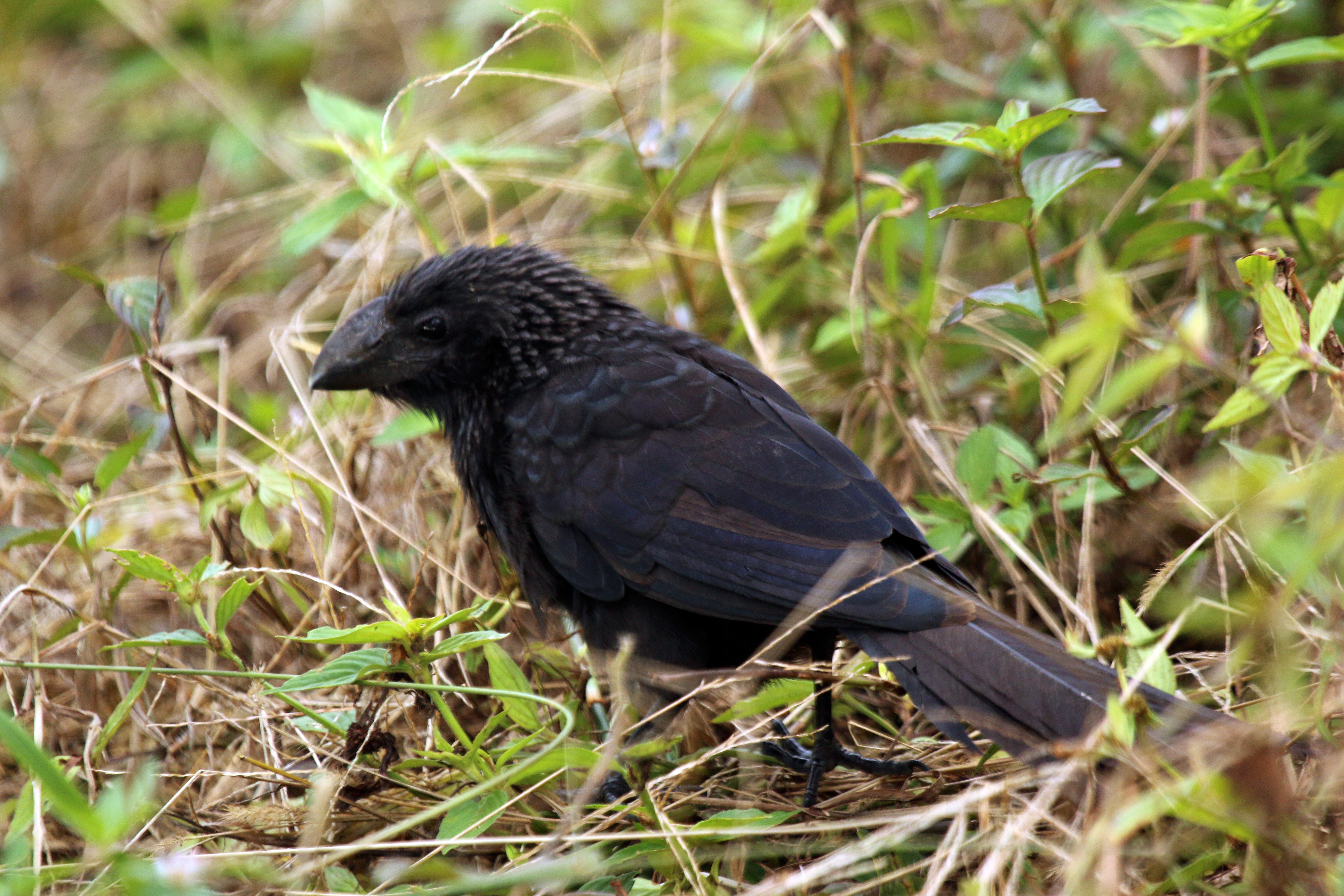 Smooth-billed ani (Crotophaga ani), Jamaica